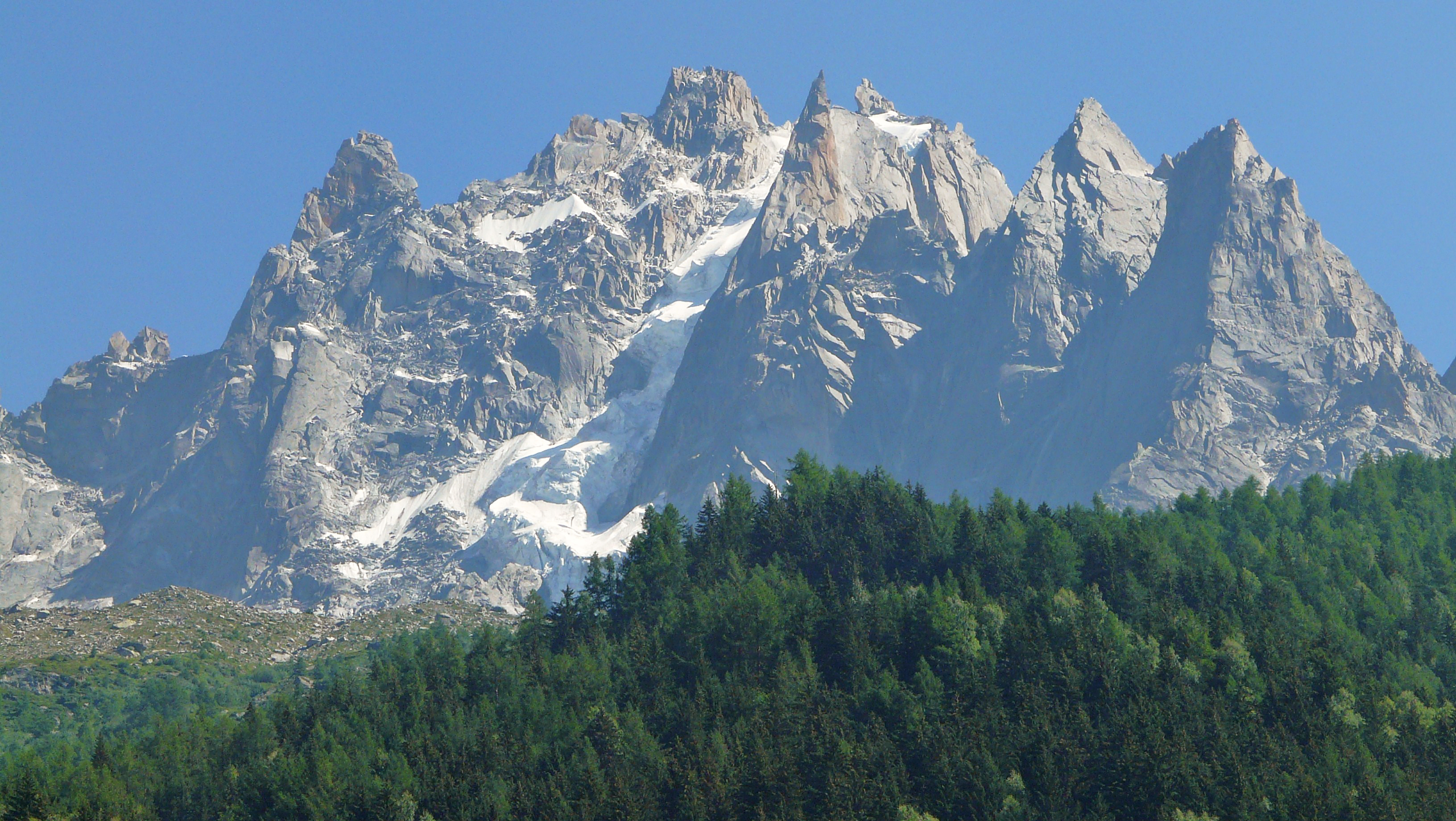 Aiguille du Plan (3,673 m) as seen from Chamonix in 2009 July.